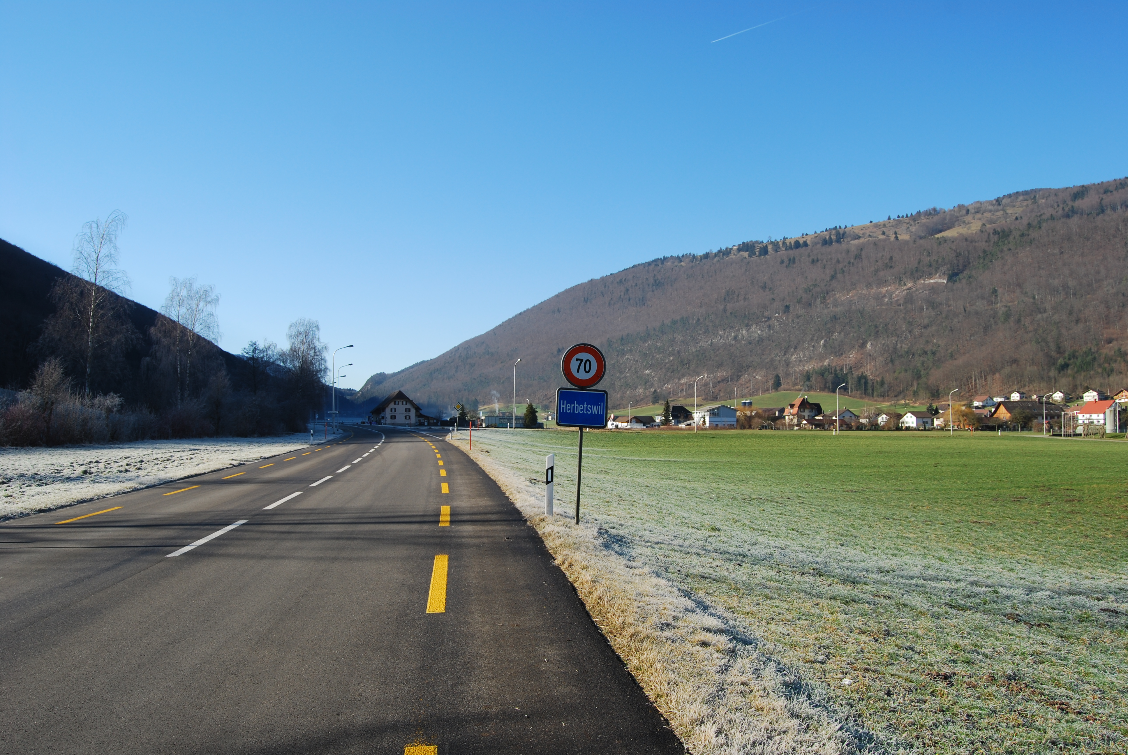 Cantonal road 30 at Herbetswil, canton of Solothurn, Switzerland